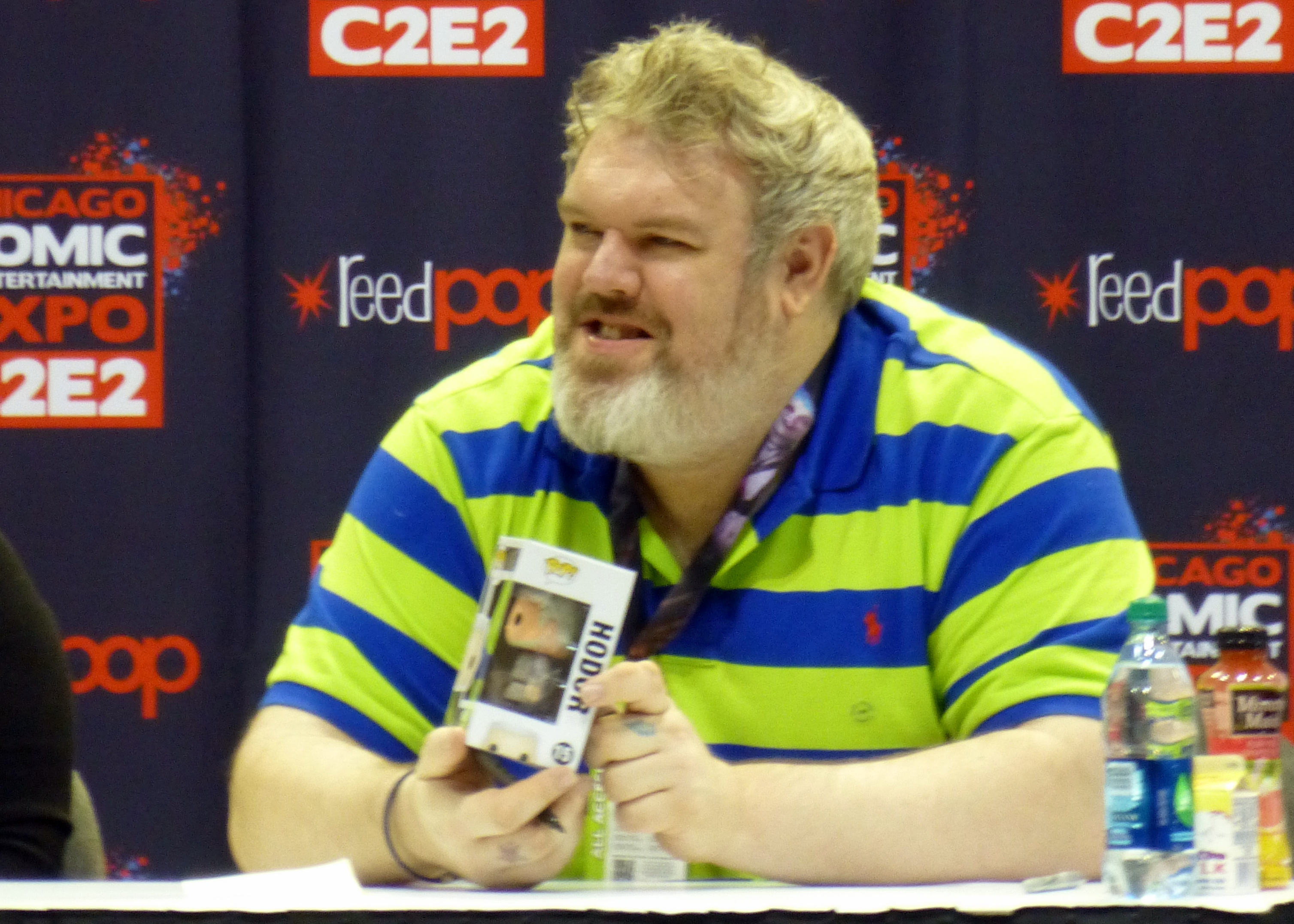 Kristian Nairn in 2014